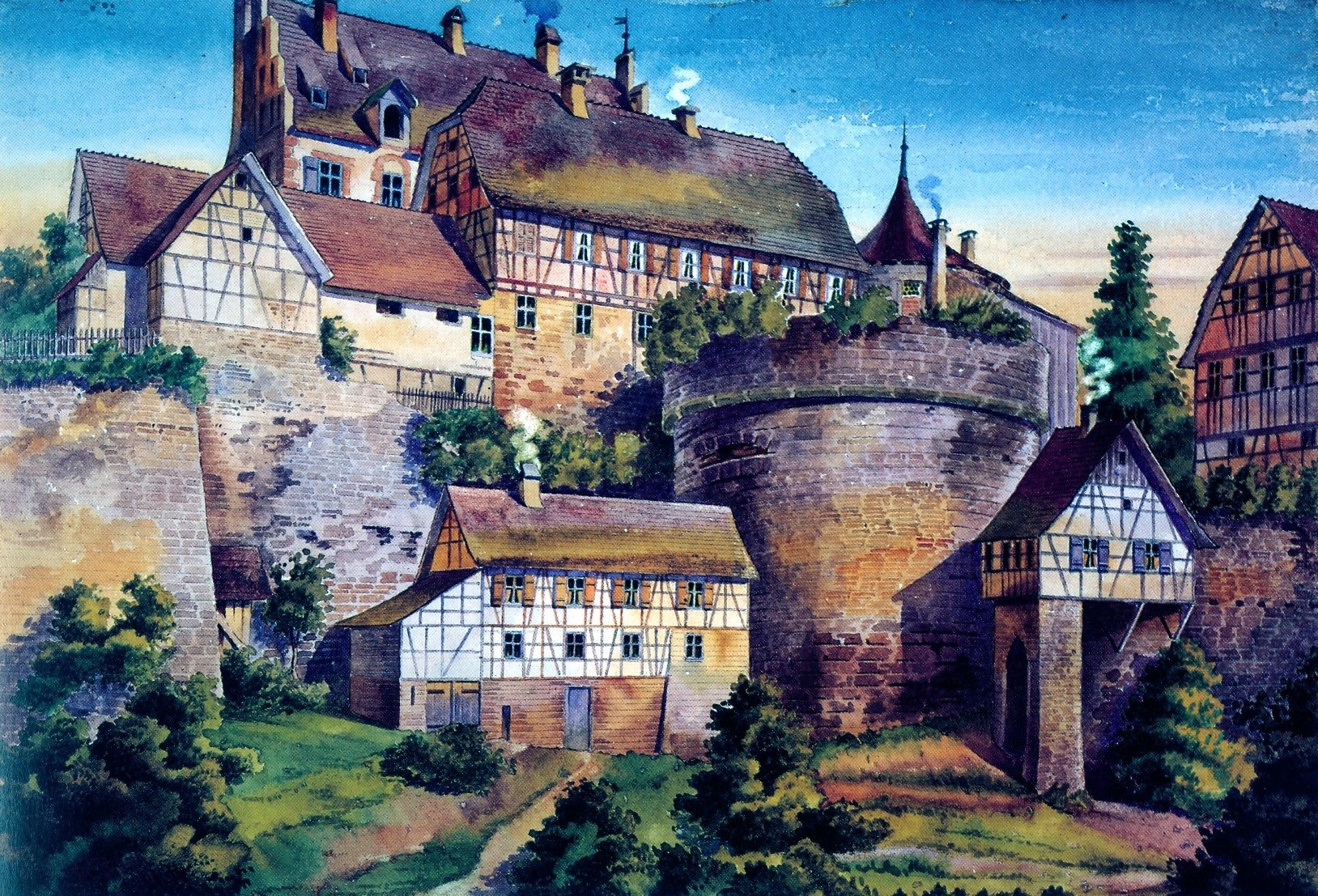 see file name